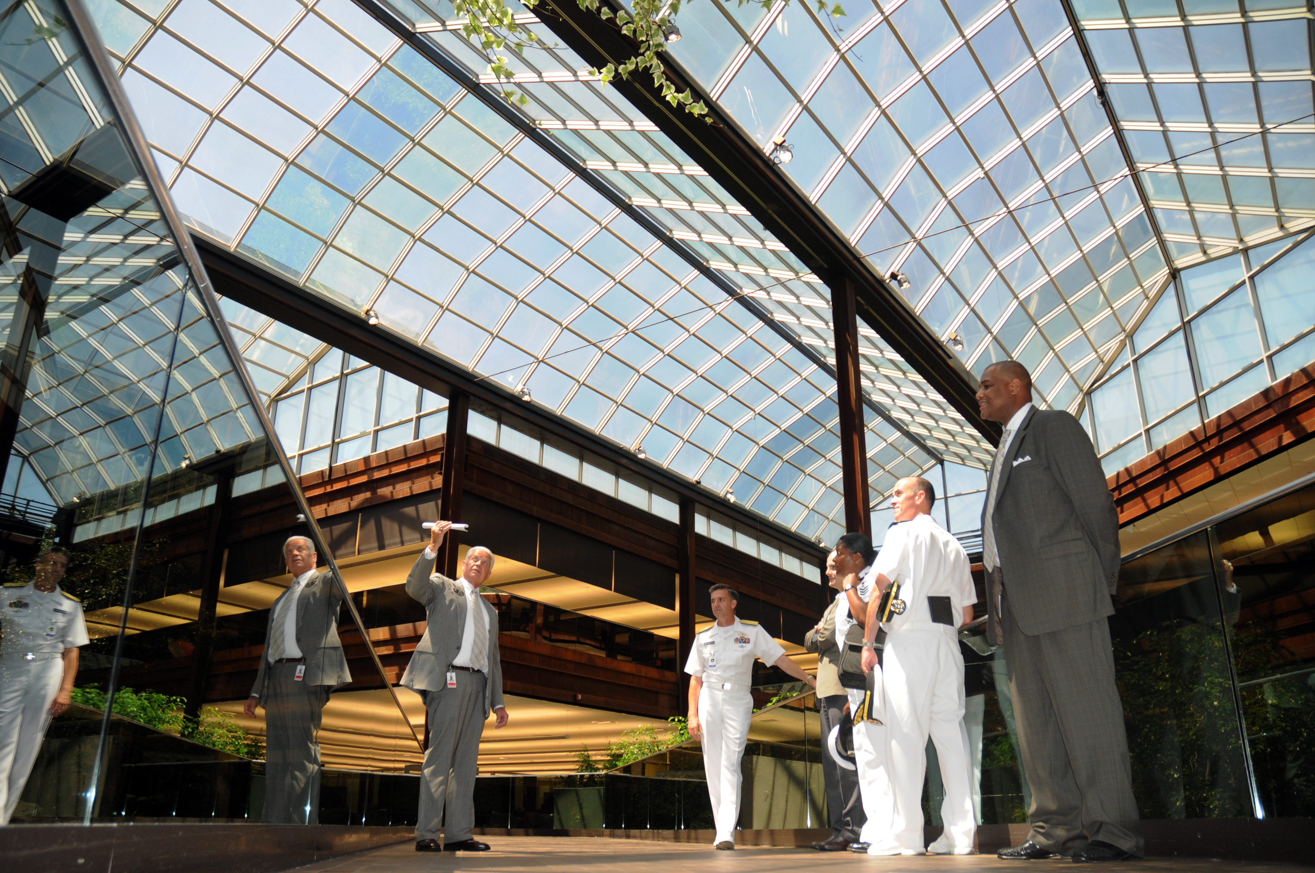 MOLINE, Ill. (June 23, 2009) Rear Adm. Michael J. Browne, deputy chief engineer of Naval Sea Systems Command, tours the John Deere World Headquarters during Quad Cities Navy Week, one of 21 Navy Weeks planned across America in 2009. Navy Week is designed to show Americans the investment they have made in their Navy and increase awareness in metropolitan areas that do not have a significant Navy presence. (U.S. Navy photo by Chief Mass Communication Specialist Steve Johnson/Released)